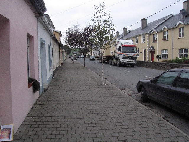 Lorry on main street, near to Cill Briotain and Barryareigh Cross Roads, Cork, Ireland. Looking west along the main street of Kilbrittain.